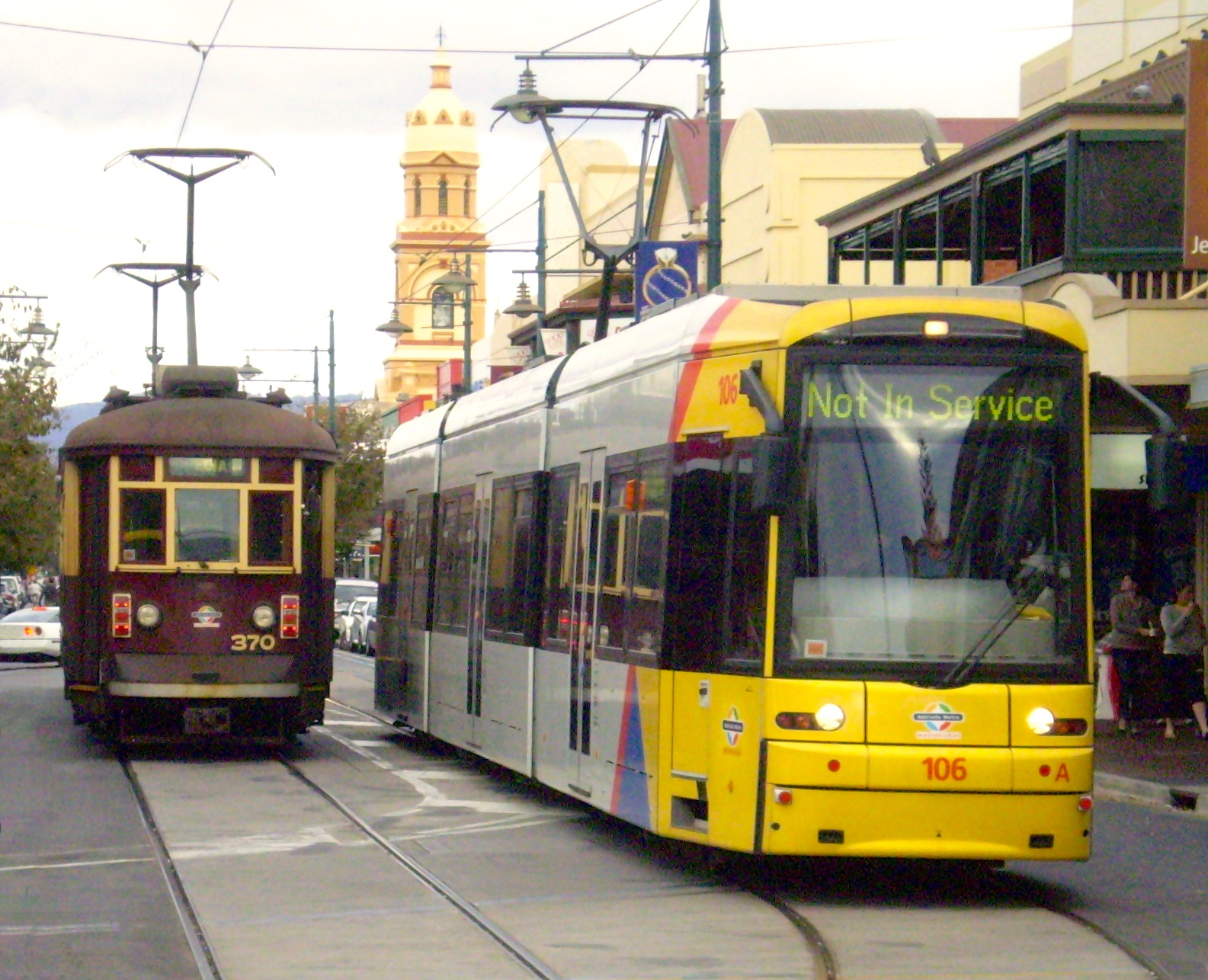 Glenelg Trams - Taken by Norman Hackenberg in Glenelg, South Australia.